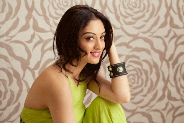 A photograph of Sandeepa Dhar, a Bollywood actress